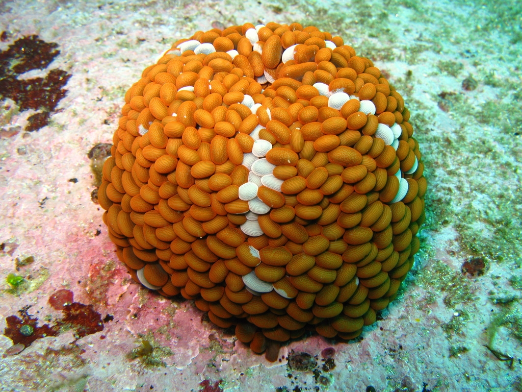 A Swimming Anemone (Phlyctenactis tuberculosa) in daytime configuration with tentacles retracted. Inscription Pt, Botany Bay, NSW